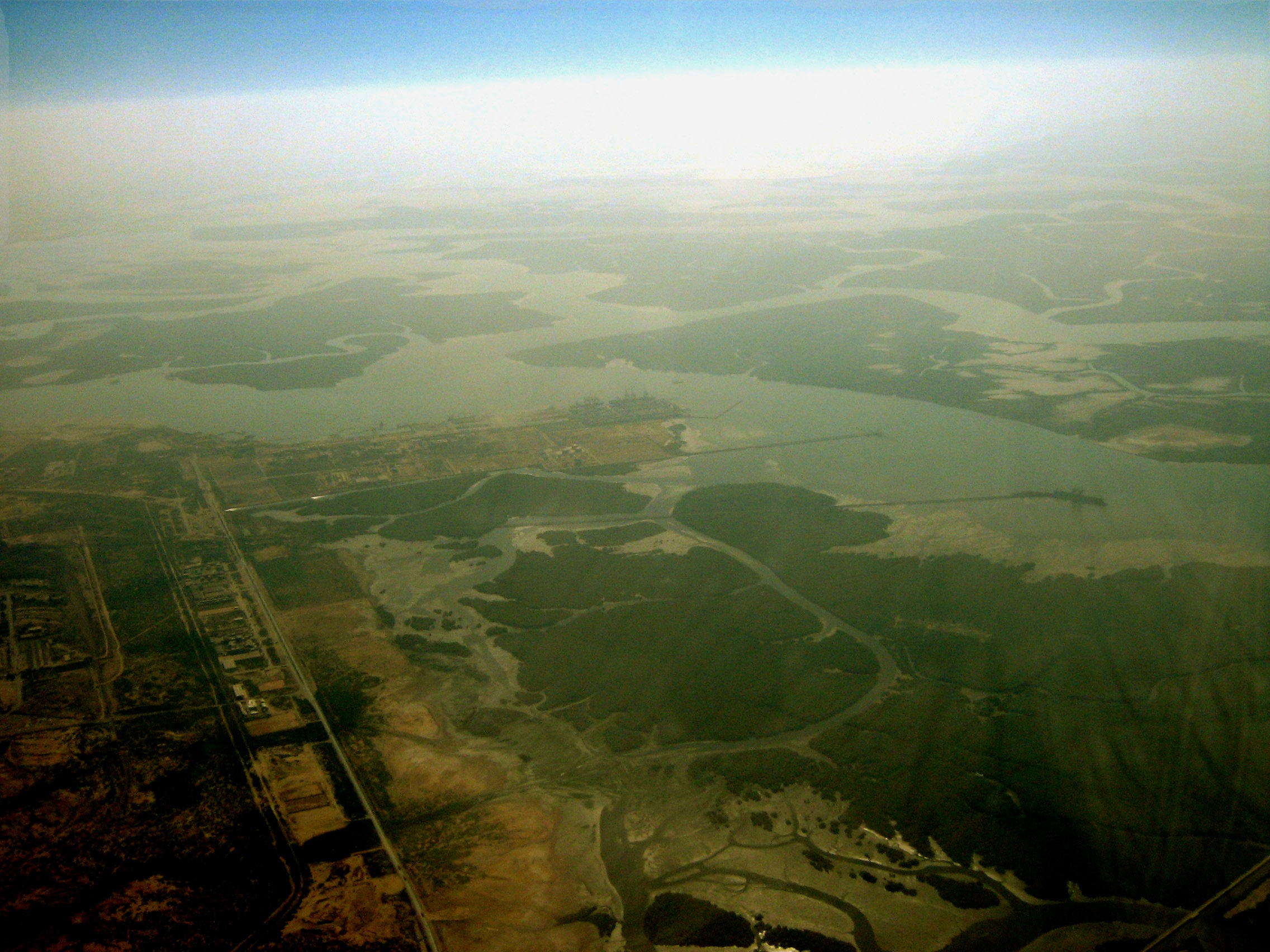 Snap of Mangrove forest in vicinity of Port Qasim, Karachi. Taken from plane.